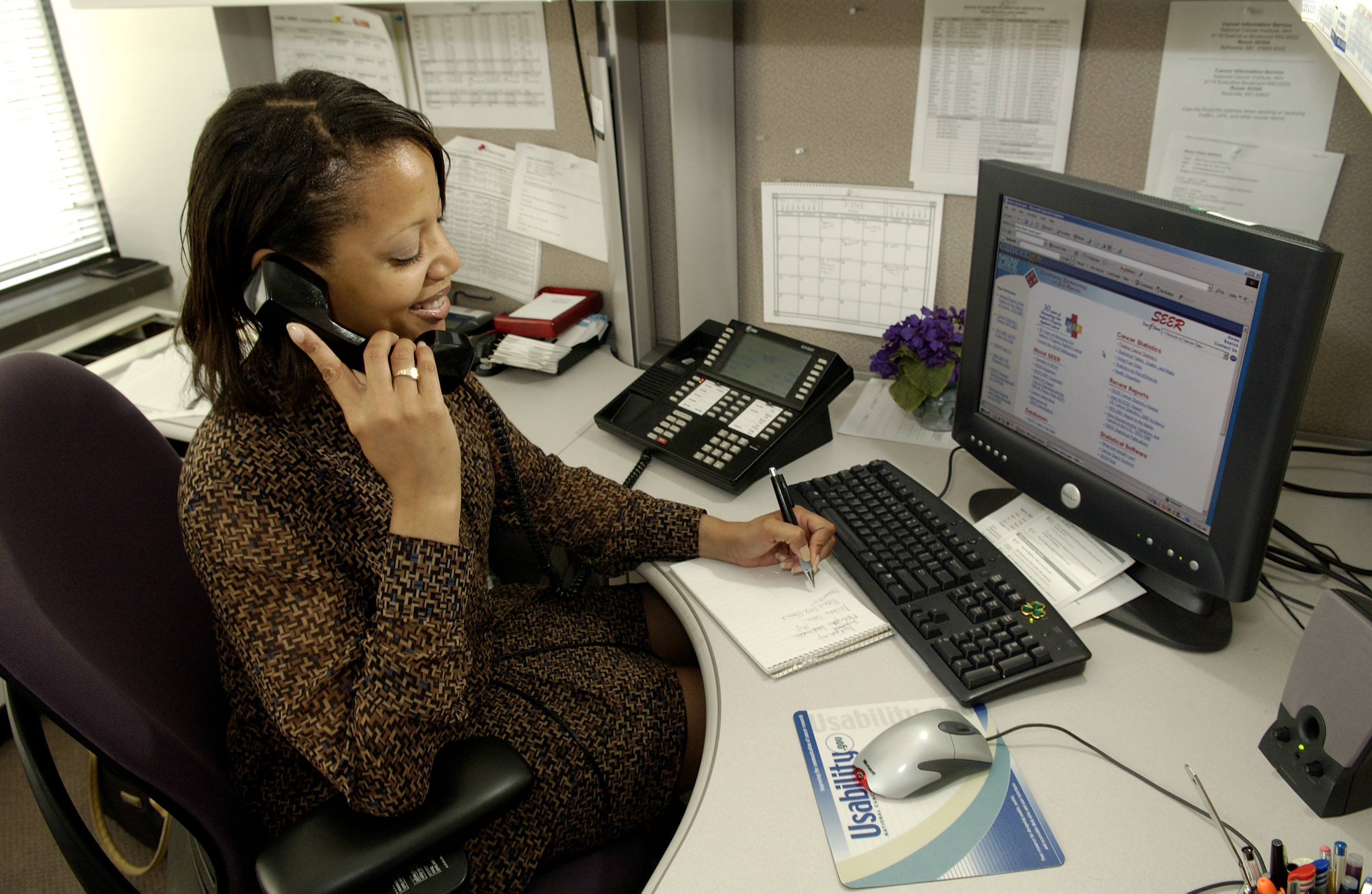 Title Health Professional Answers Phone Description An female African-American Cancer Information Service staffer receives an inquiry from a customer on the telephone. Topics/Categories People -- Health Professional Type Color, Photo Source National Cancer Institute